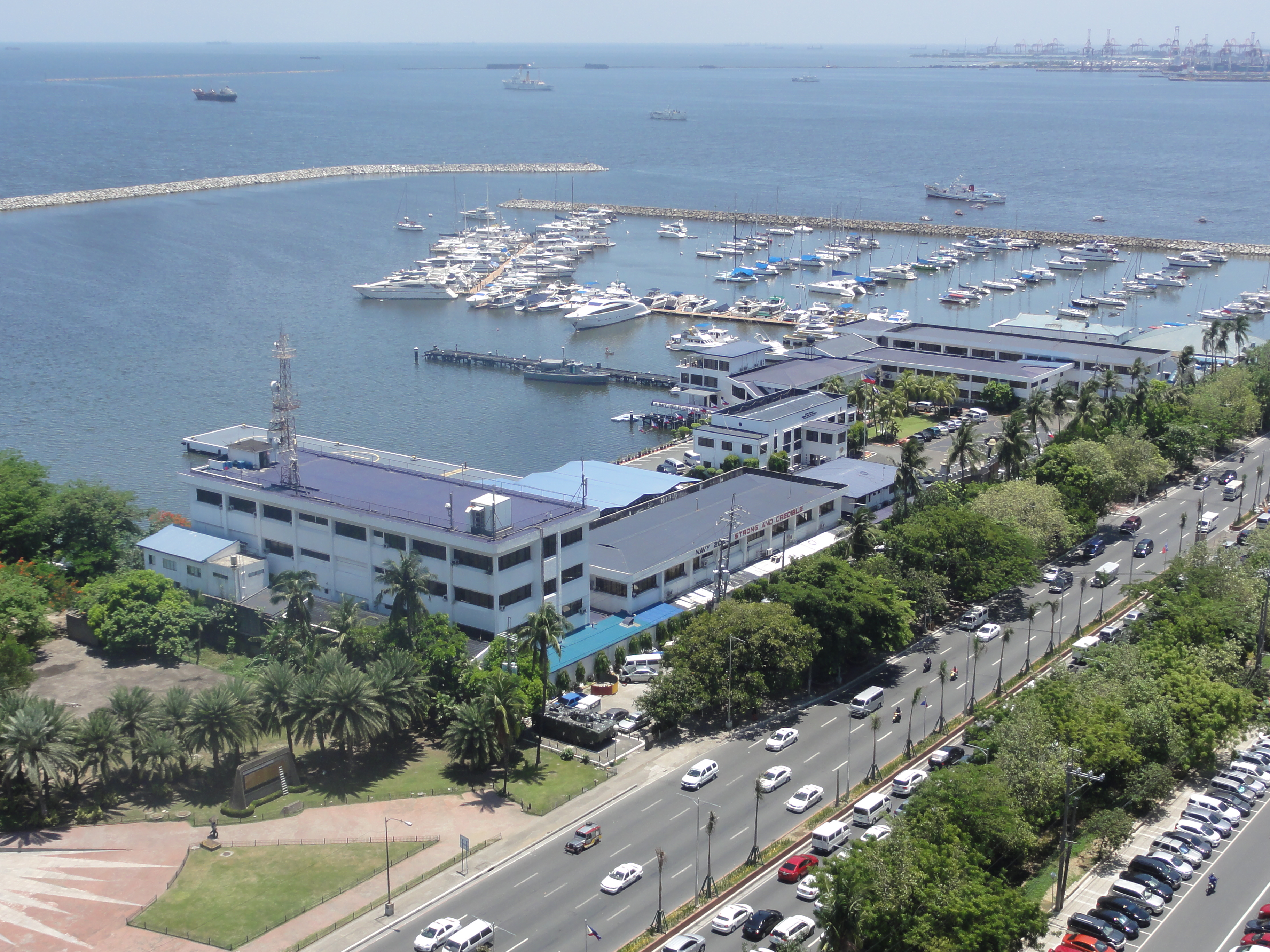 Top view of the Philippine Navy Headquarters along Roxas Boulevard (near CCP Complex), Malate, Manila as of June 2015.